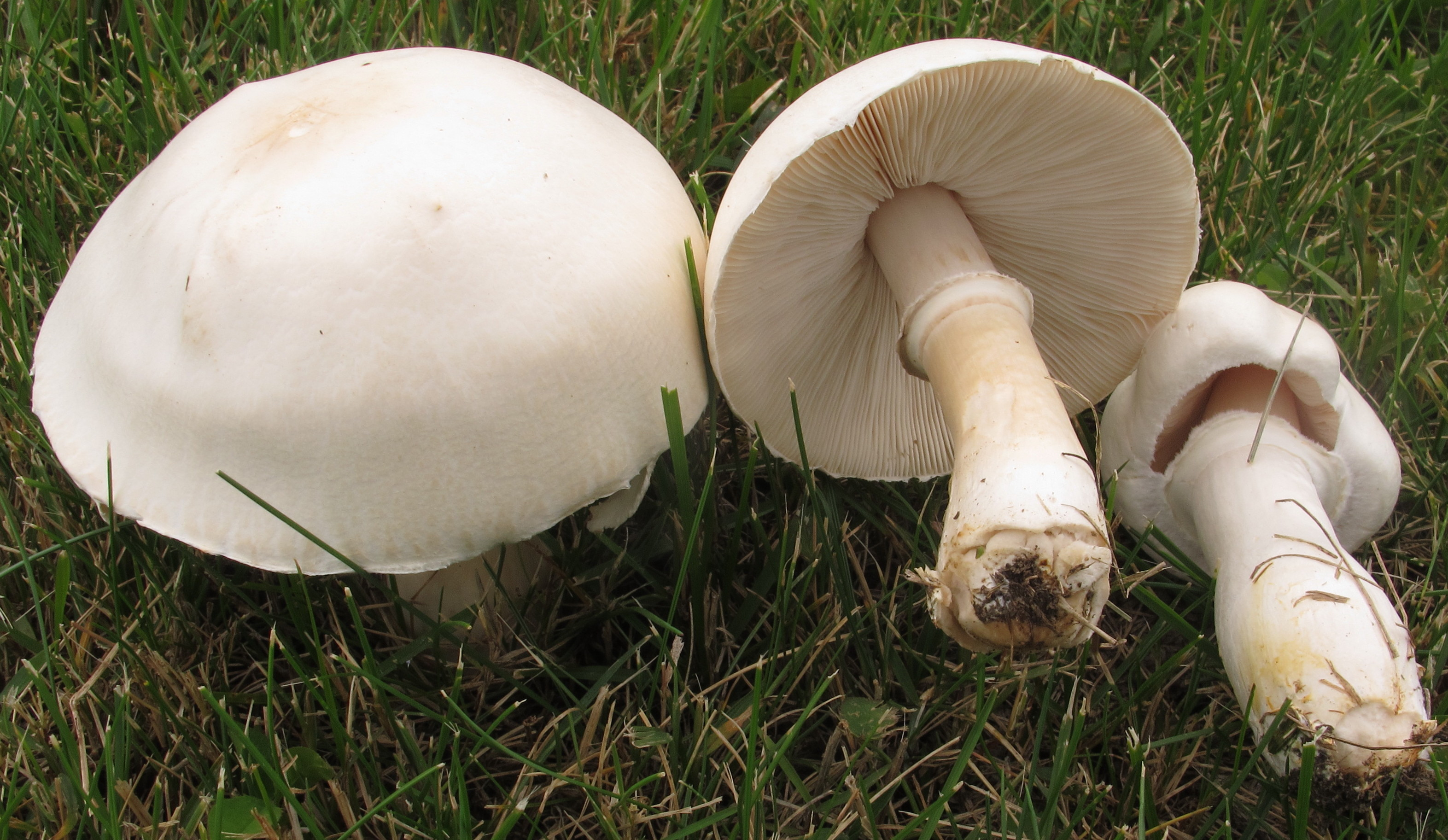 Leucoagaricus leucothites (Vittad.) M.M. Moser ex Bon